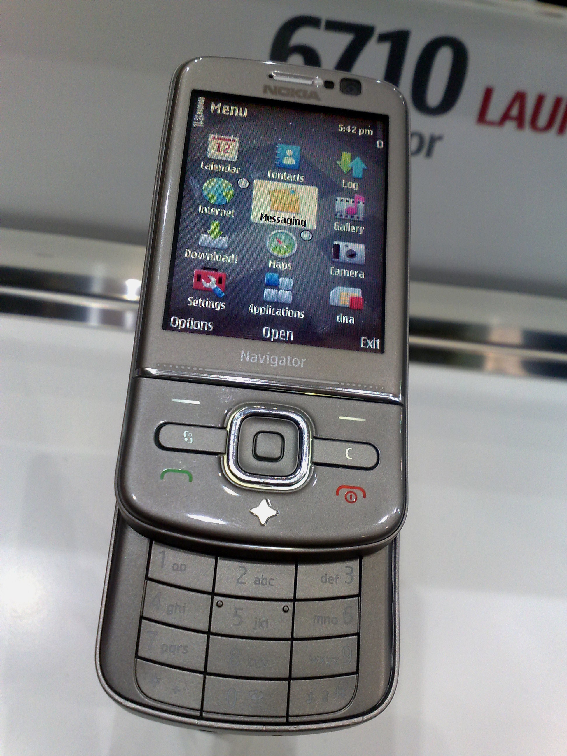 The third iteration in Nokia's "6xxx Navigator" series of S60 phones focussed on navigation services. This one ups the specs to 5MP, 600Mhz CPU and high-speed HSPA. Sweet!